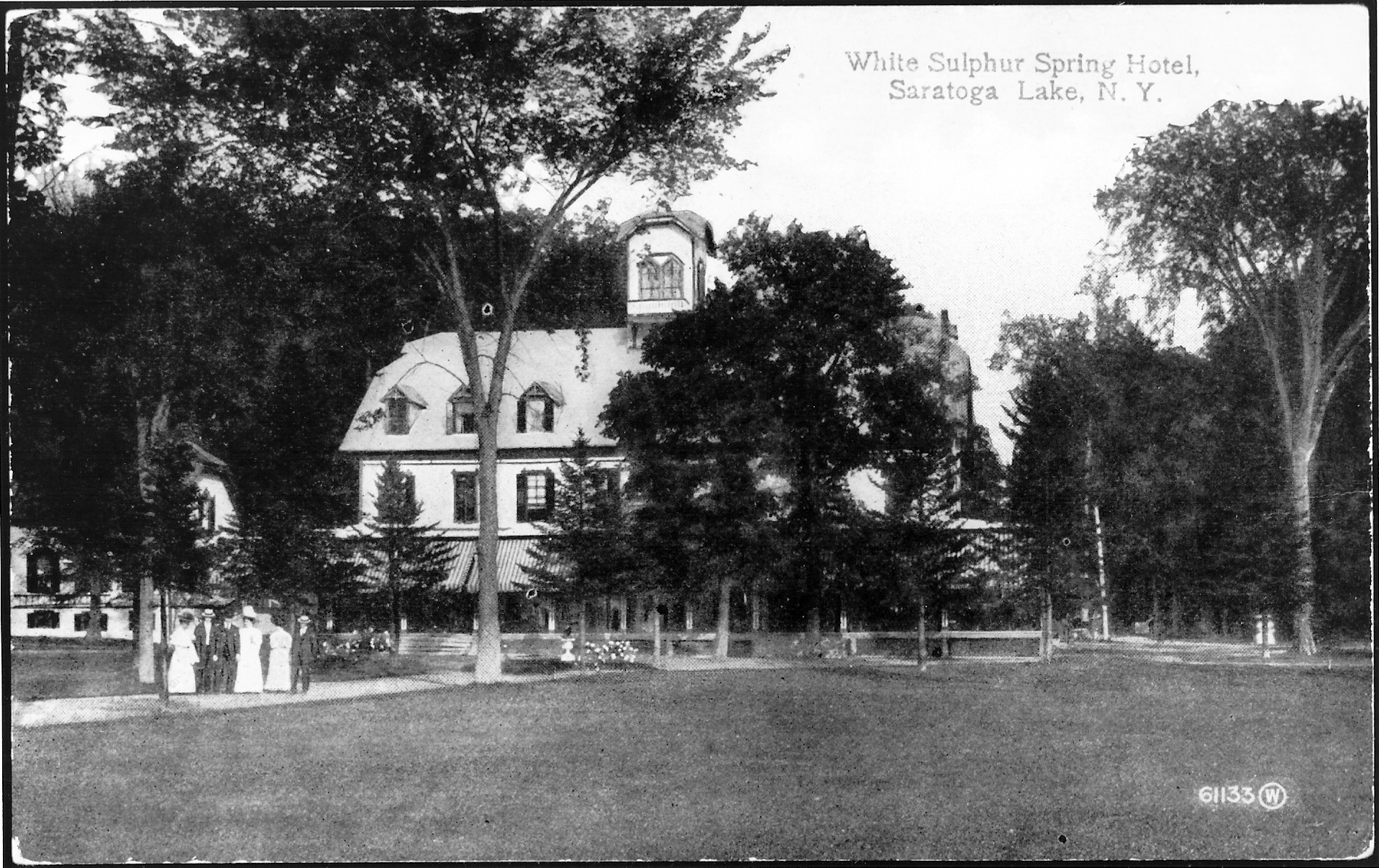 White Sulphur Springs Hotel, Stillwater NY